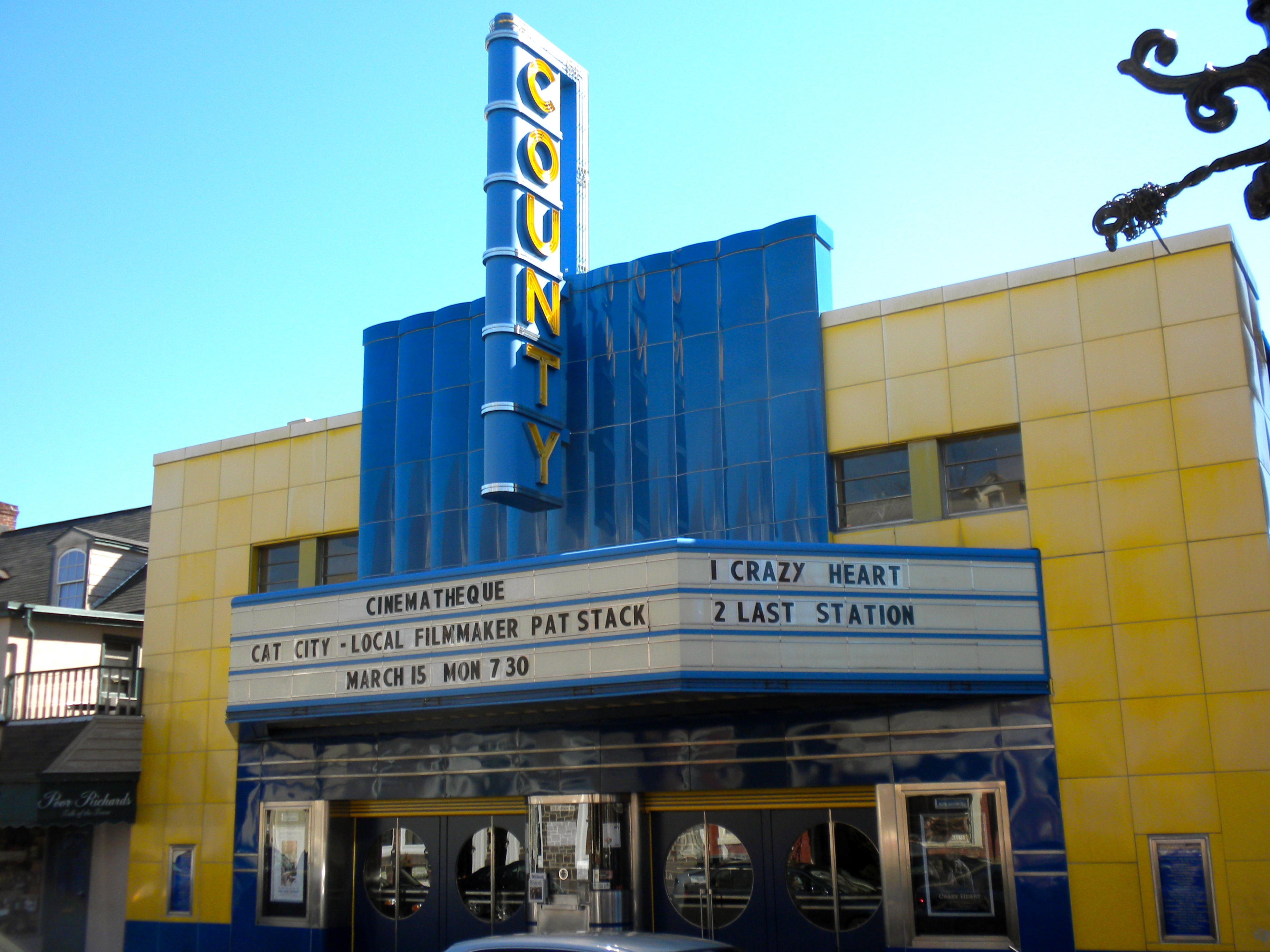 The County Movie House in downtown Doylestown, Bucks County, Pennsylvania. It is part of a Historic District around downtown Doylestown, that is roughly bounded by Union, Cottage and E. Ashland Streets, Hillside Avenue and S. and N. West Streets. It was featured in the 2009 film "Revenge of the Don"